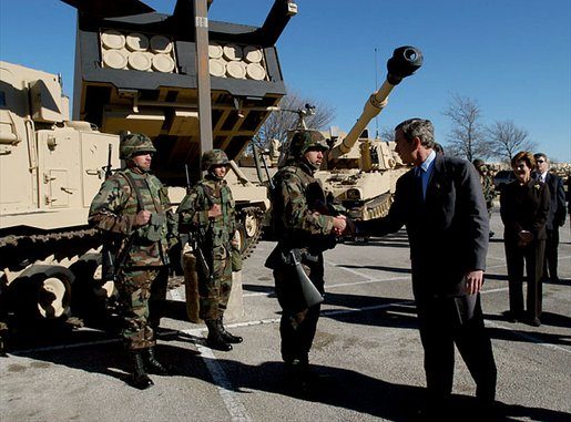 President George W. Bush greets army soldiers in front of tank equipment during a visit to Fort Hood in Killeen, Texas, Friday, Jan. 3, 2003.